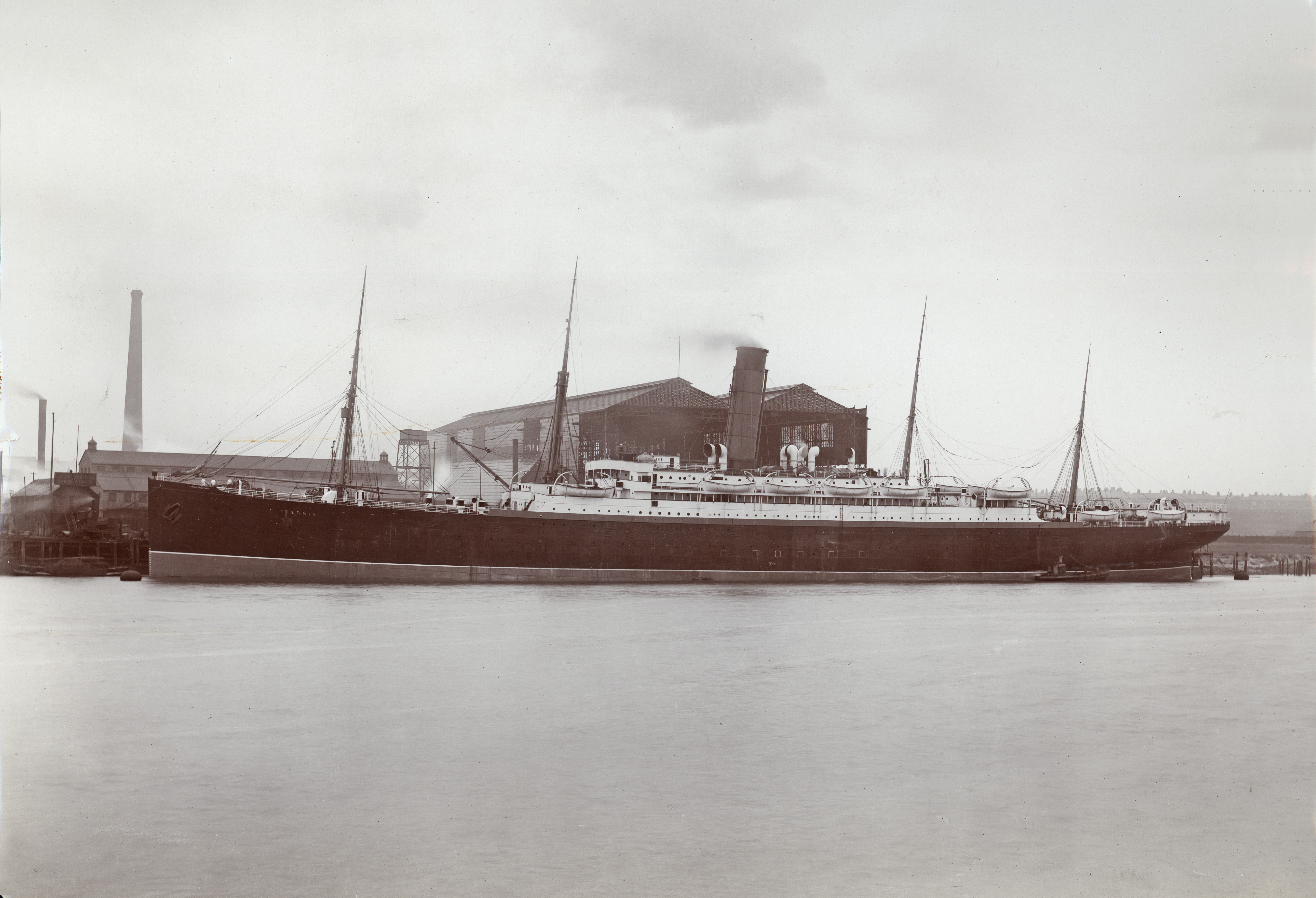 Format: Fotopositiv Dato / Date: Ukjent, ca. 1900 Fotograf / Photographer: Ukjent Sted / Place: Newcastle-on-Tyne, England Wikipedia: SS Ivernia Wikipedia: Cunard Line Wikipedia: Swan Hunter Eier / Owner Institution: Trondheim byarkiv, The Municipal Archives of Trondheim Arkivreferanse / Archive reference: Tor.H44.L02.F9339 Merknad: I.S.S Ivernia, C.S Swan & Hunter, Limited Newcastle-on-Tyne Wallsend